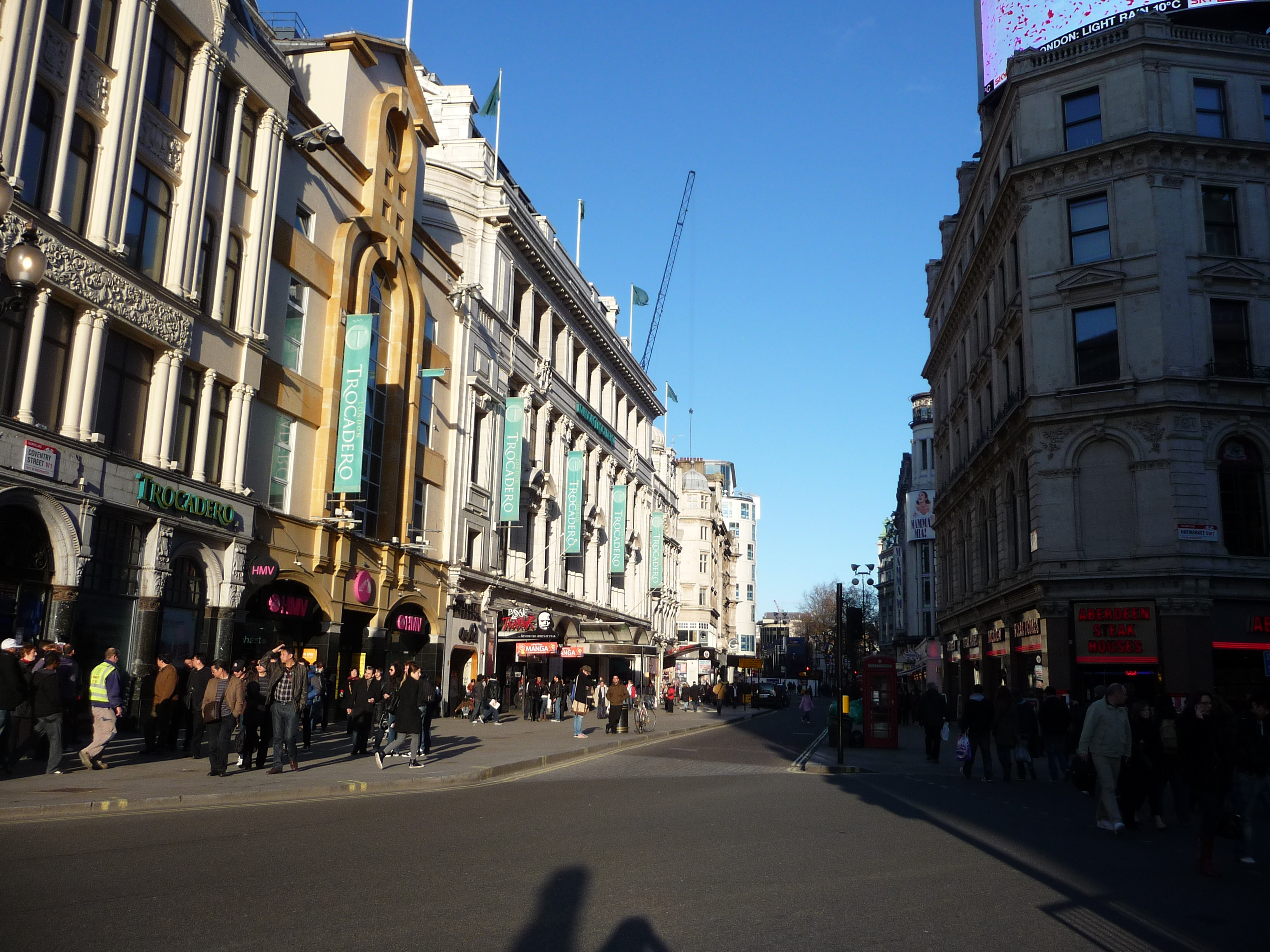 London : Westminster - Coventry Street Looking down Coventry Street on a sunny March afternoon.